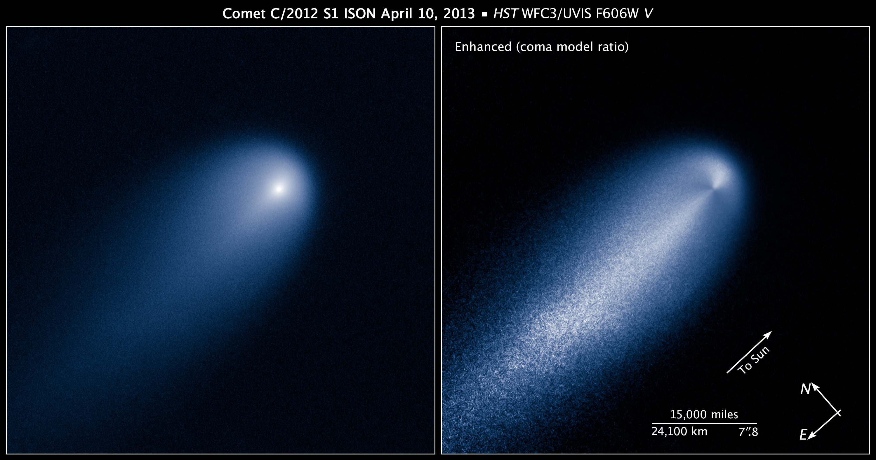 Hubble Captures Comet ISON